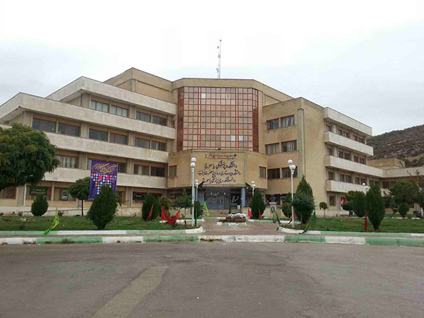 Yasuj university of medical sciences